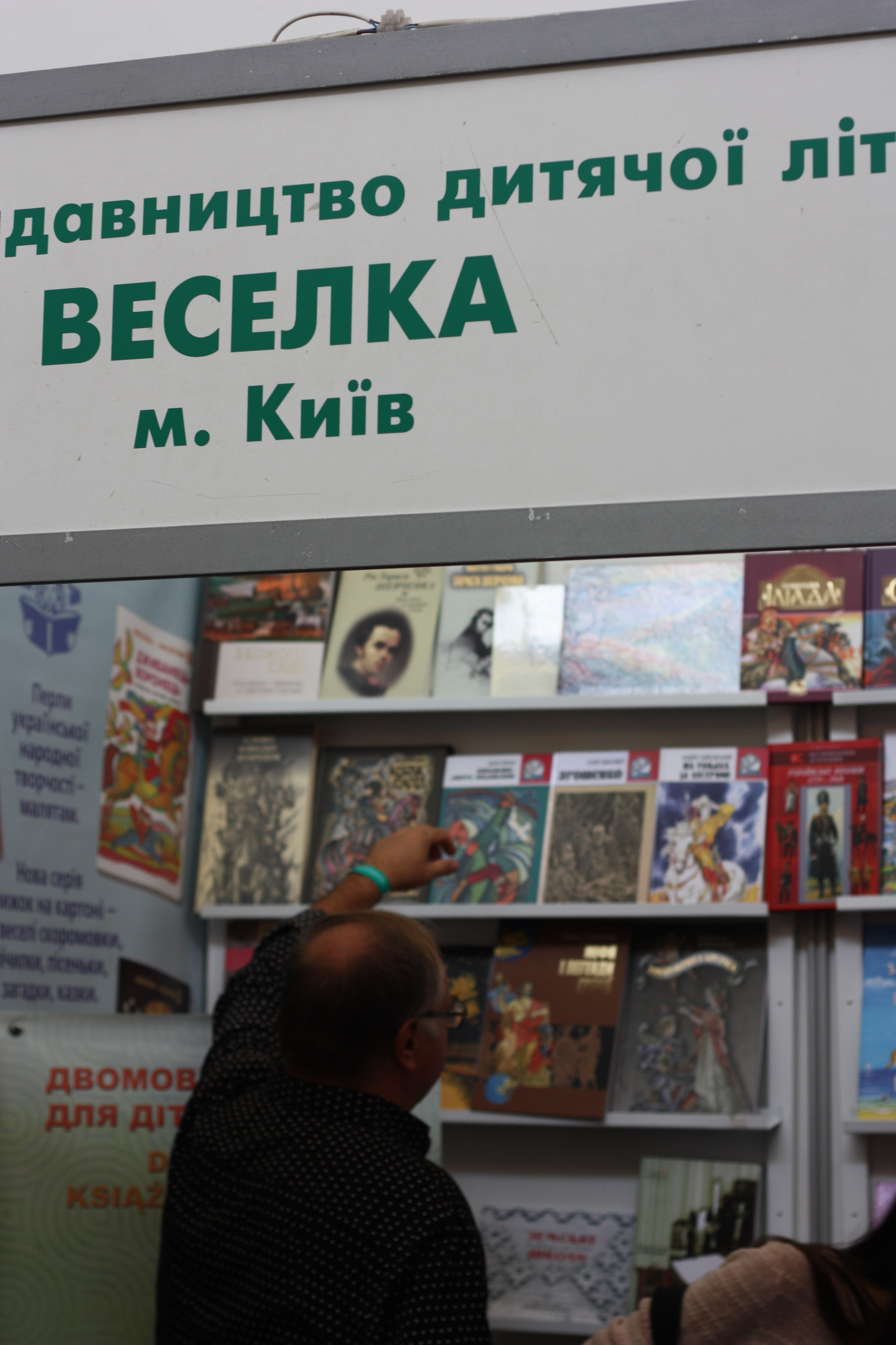 Publishers' Forum in Lviv 2017